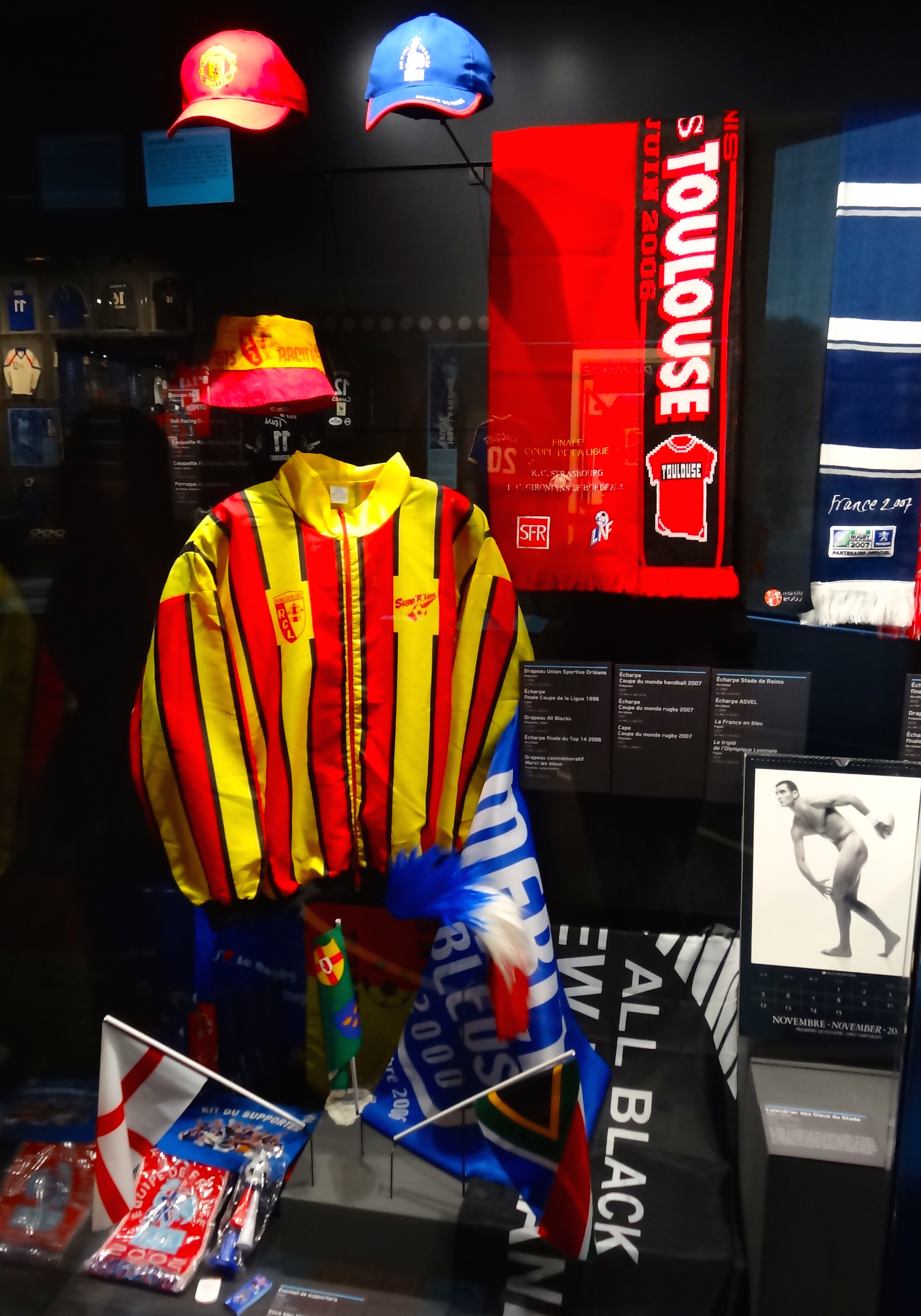 Supportering (musée national du sport)